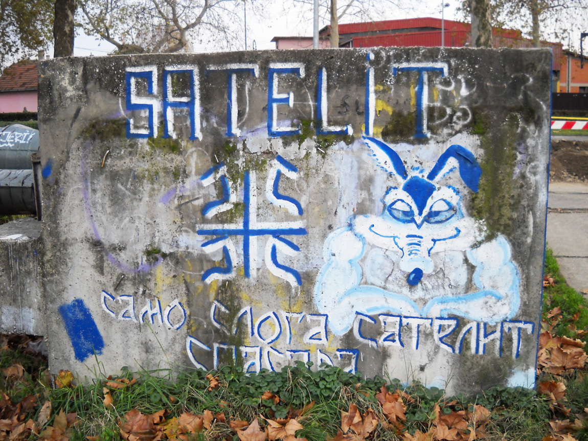 Graffiti in Satelit neighborhood in Novi Sad.